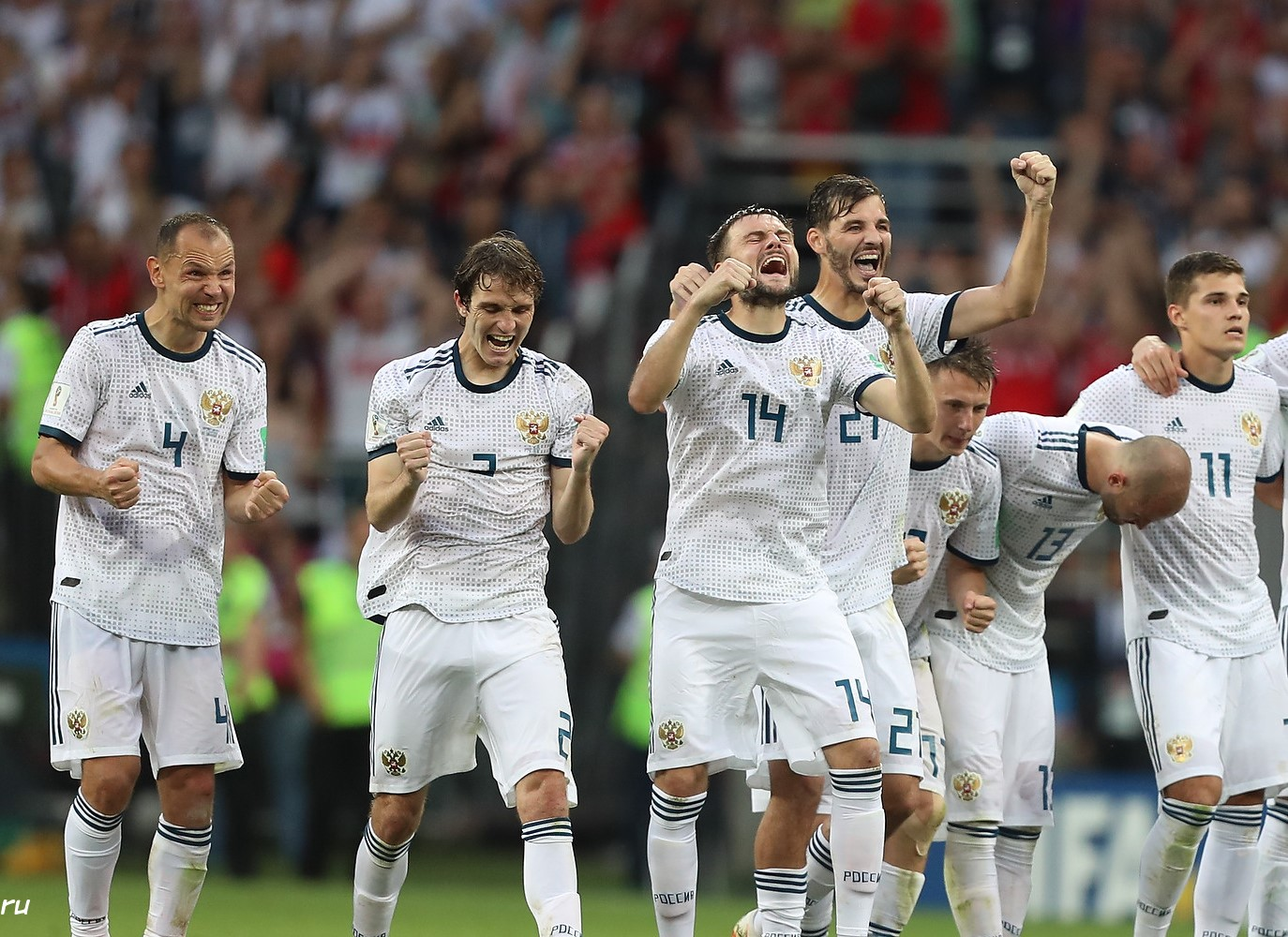 2018 FIFA World Cup Match 51, Russia v Spain